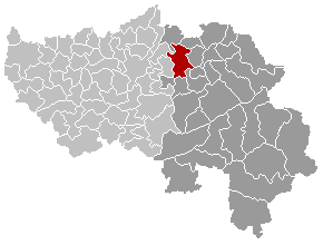 Map, municipality belgium Herve